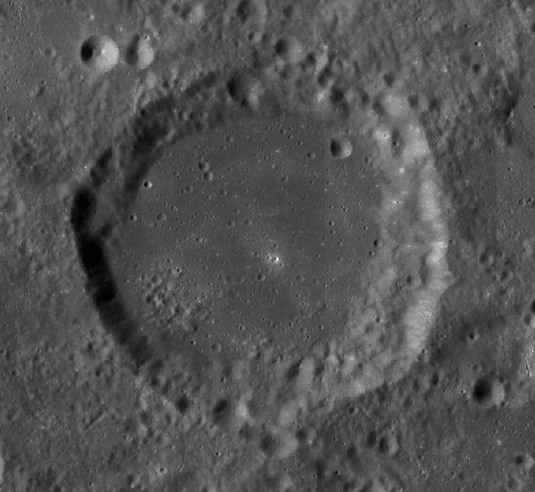 Abulfeda crater, on the moon. Lunar Reconnaissance Orbiter Wide Angle Camera (WAC) mosaic.